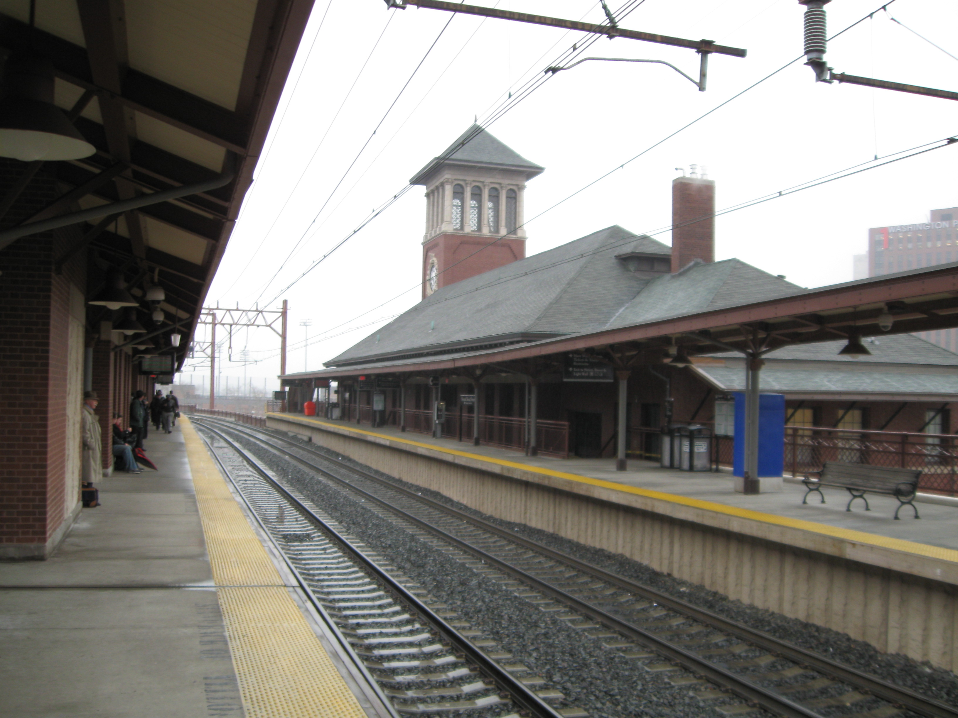 Newark Broad Street Station in Newark, New Jersey